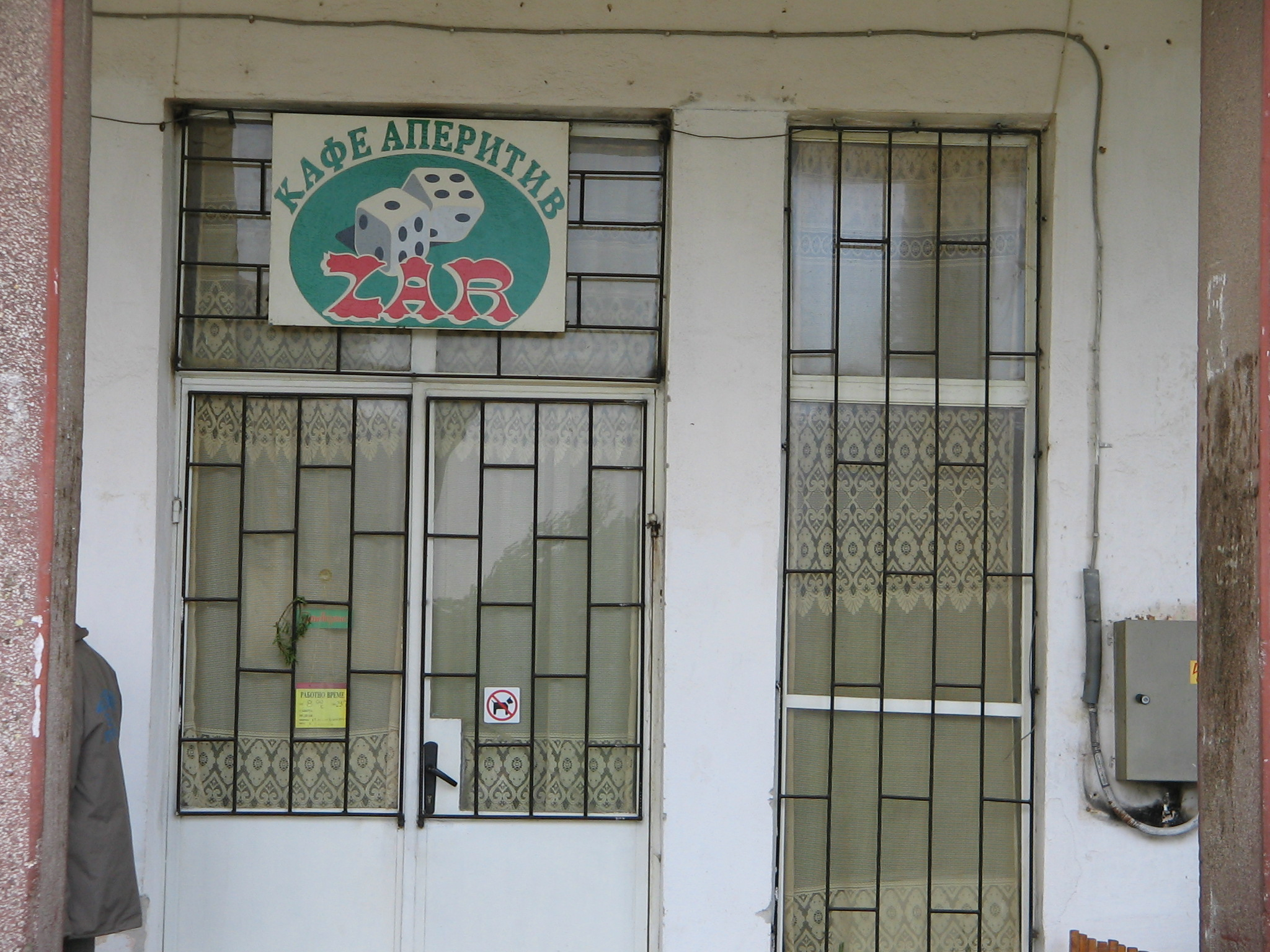 Bulgarian village of Rozovets: Bar "Zar" ("Dice")